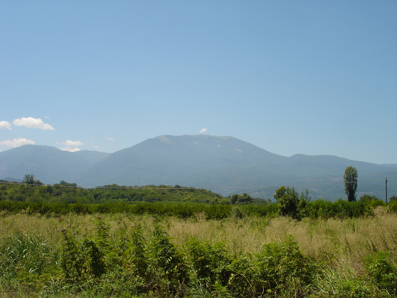 Karakamen (Βέρμιο; Vermio) Mountain viewed from village of Kopanos in Aegean Macedonia, Greece